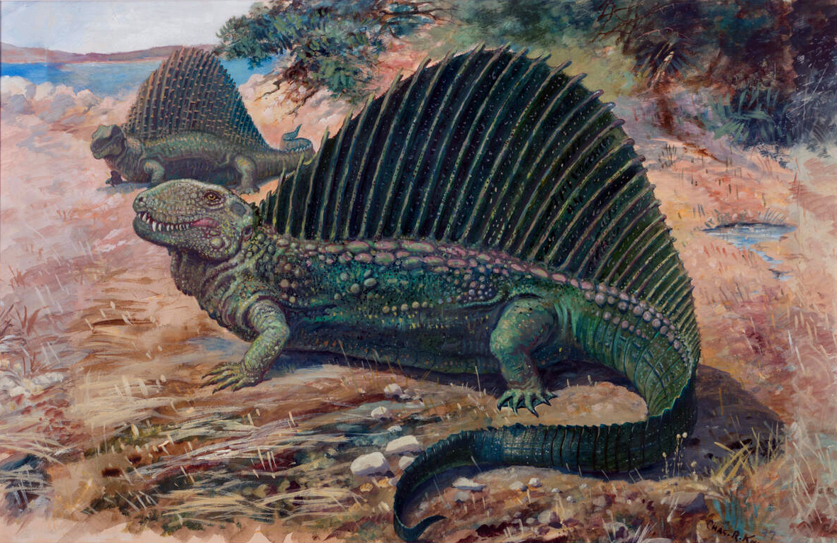 Dimetrodon painting by Charles R. Knight, Edaphosaurus in the background.